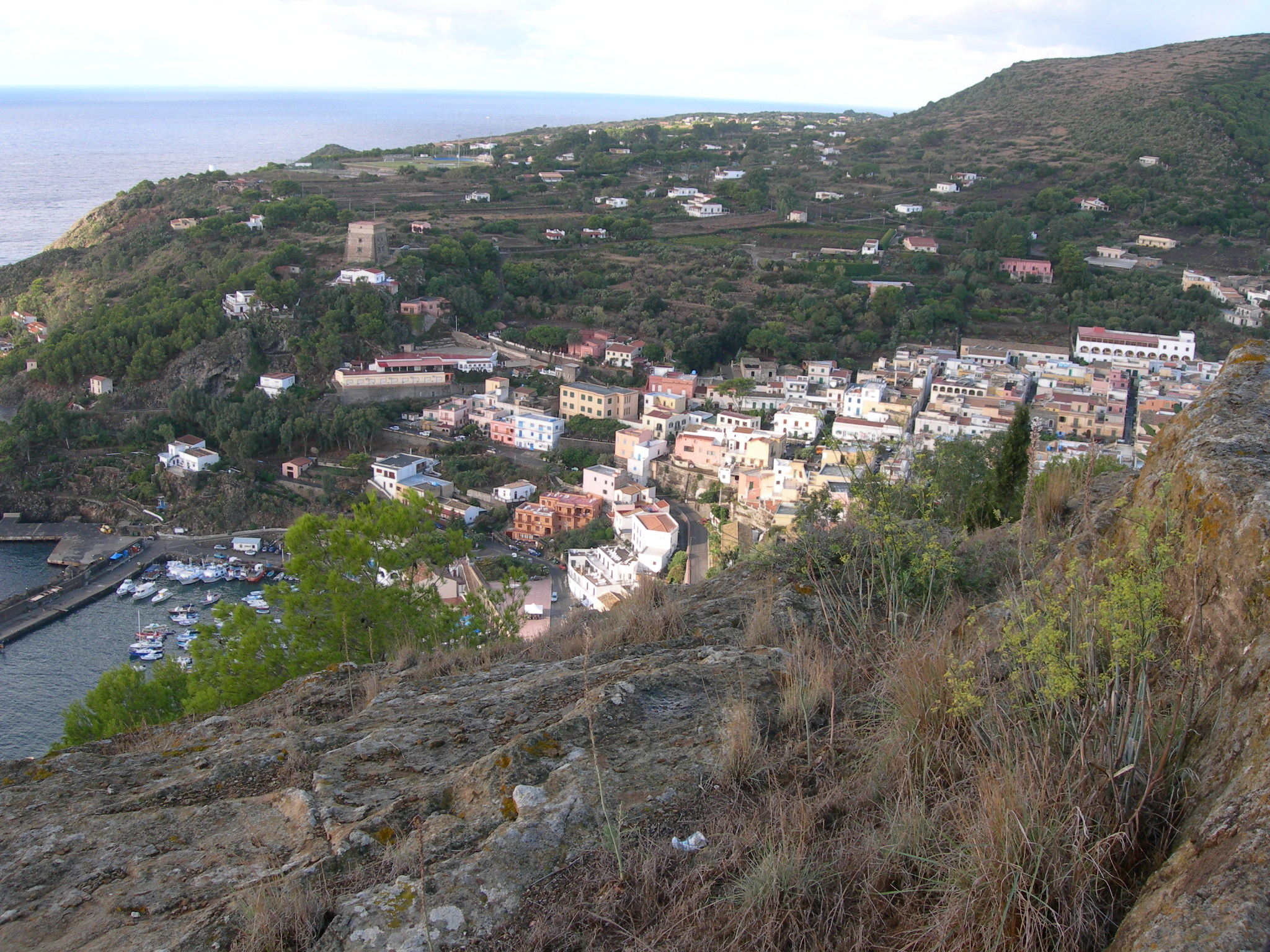 Village of Ustica in the isle of Ustica (province of Palermo, Sicily)